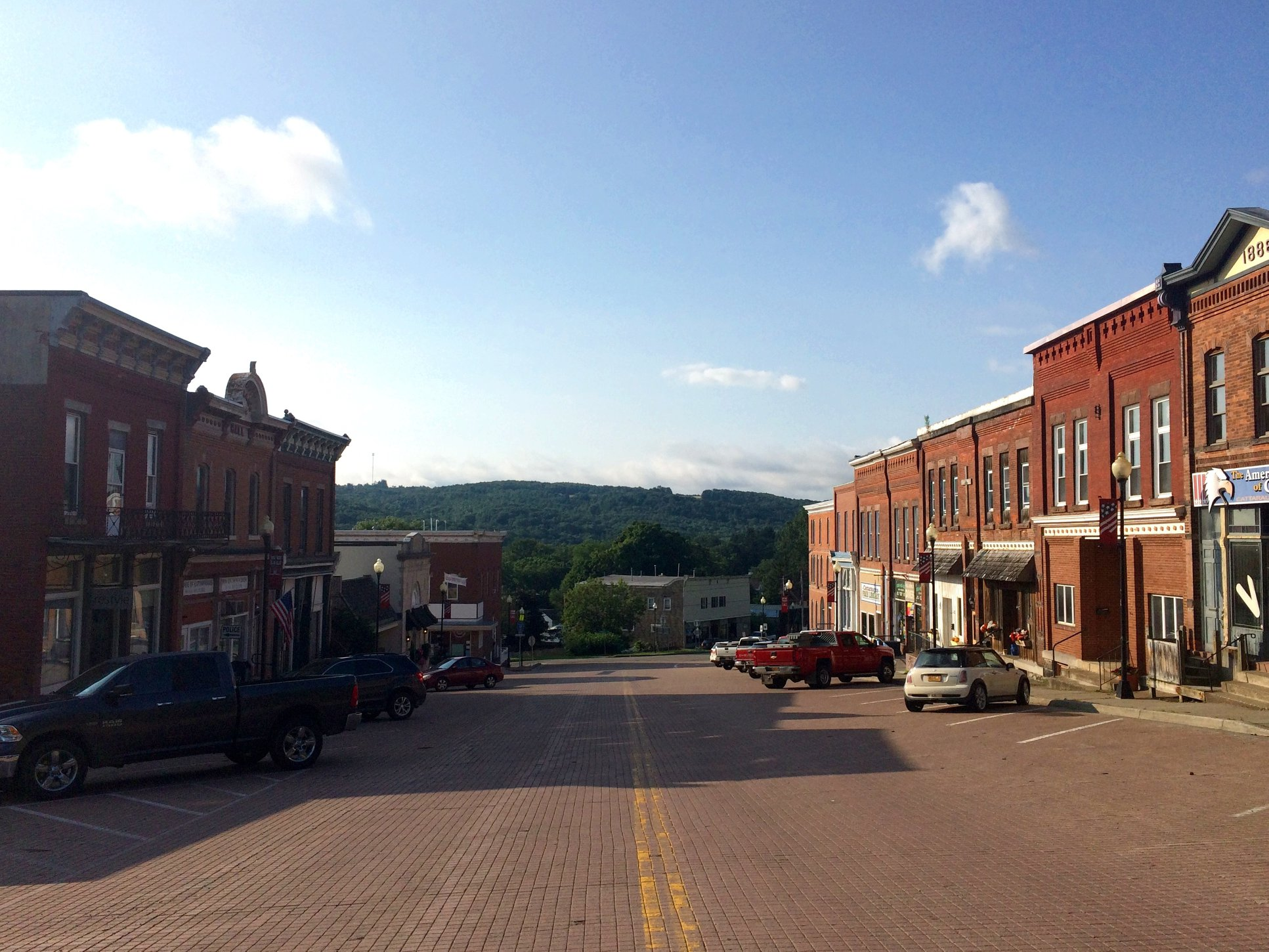 Looking southward down North Main Street (NY 353) from the corner of Jefferson Street in the Village of Cattaraugus, New York.